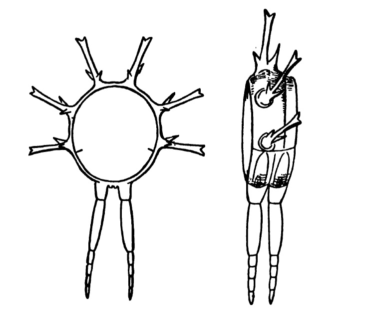 Generalized cross section and side view of an extinct archpolypodan millipede.